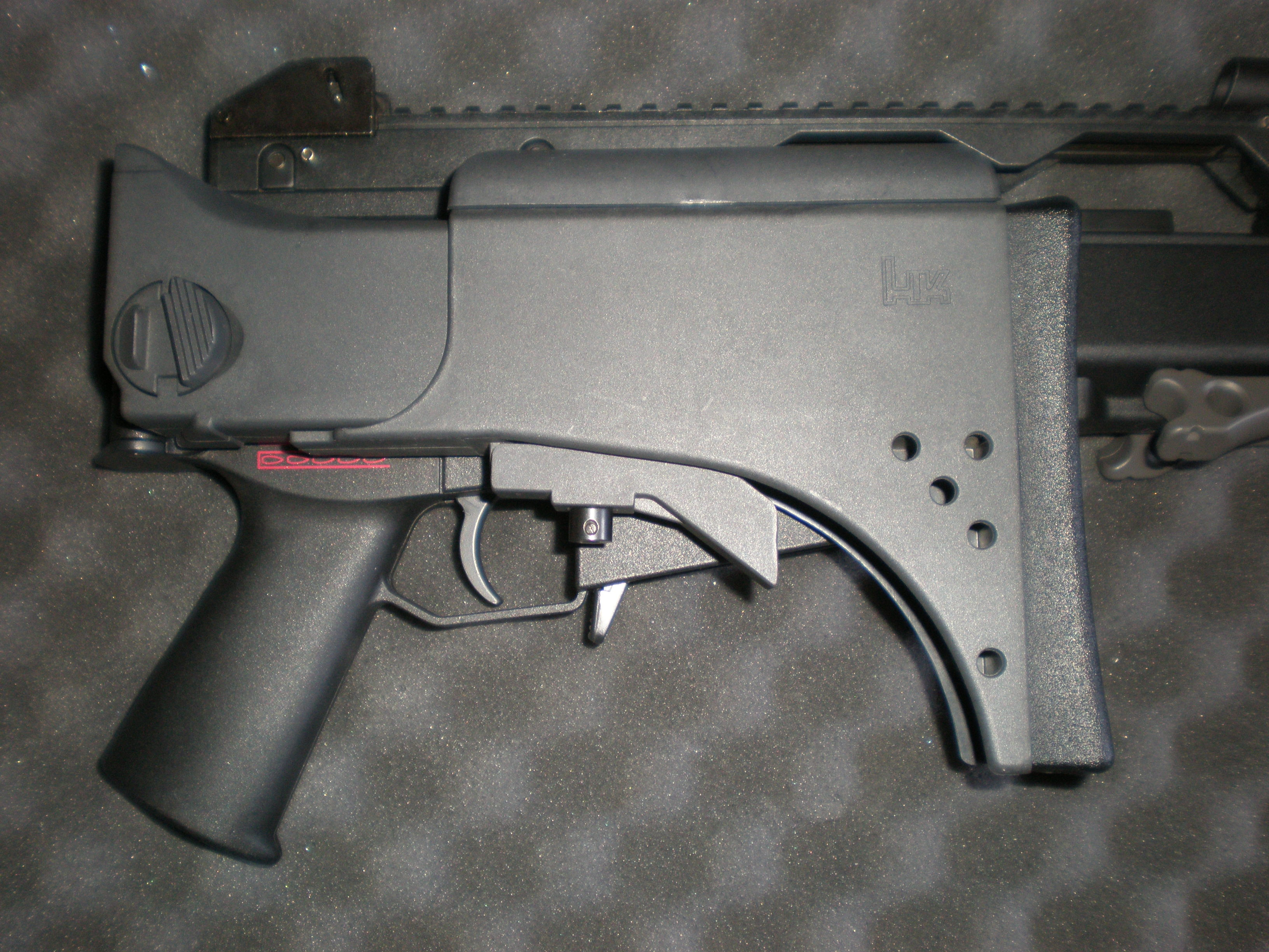 A Classic Army MG36 light machine gun magazine with the stock folded. See Image:Airsoft MG36.JPG.